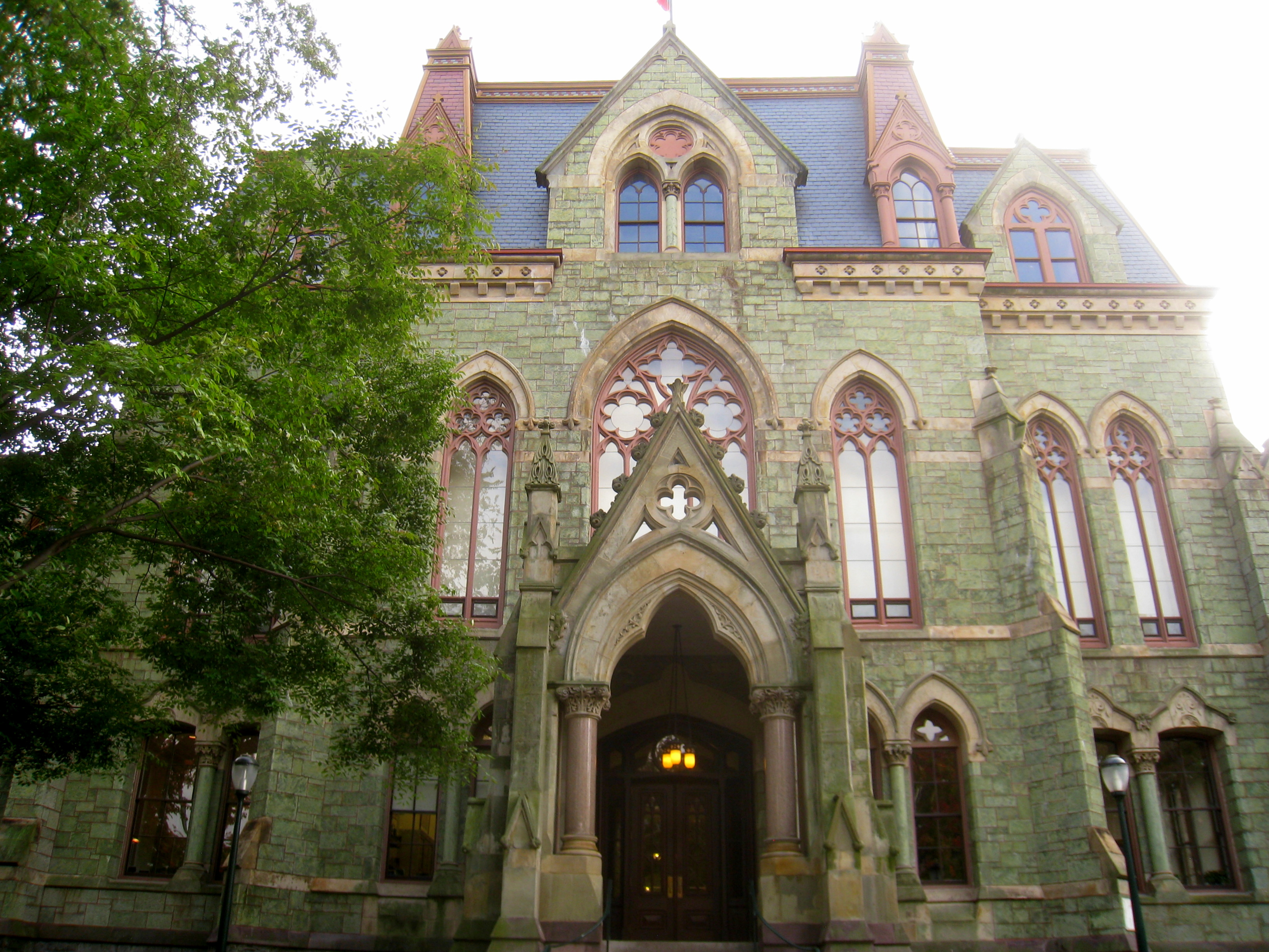 College Hall, University of Pennsylvania, Philadelphia, Pennsylvania, USA.